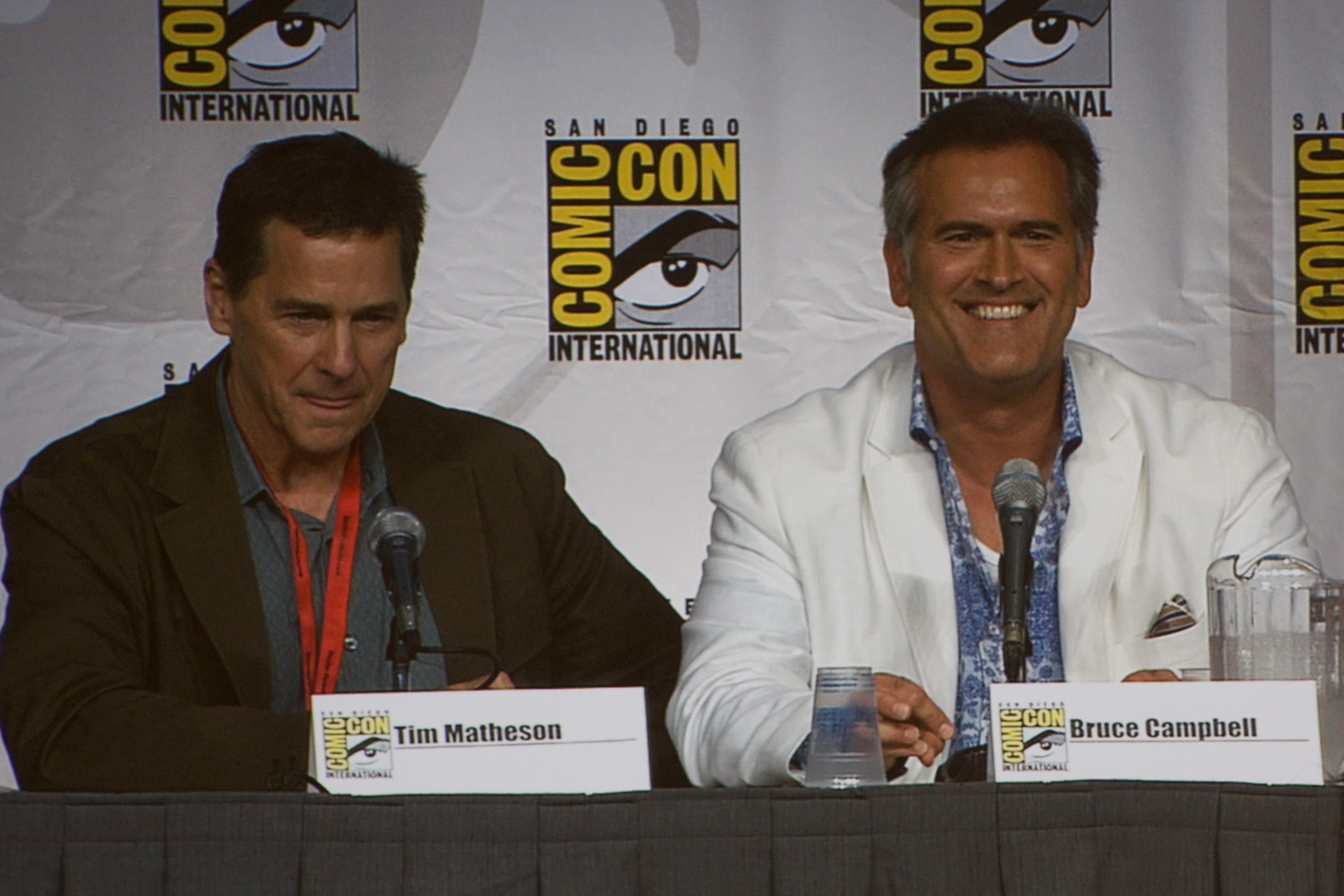 "Burn Notice" Panel. Director Tim Matheson and actor Bruce Campbell at San Diego 2010 Comic-Con International.